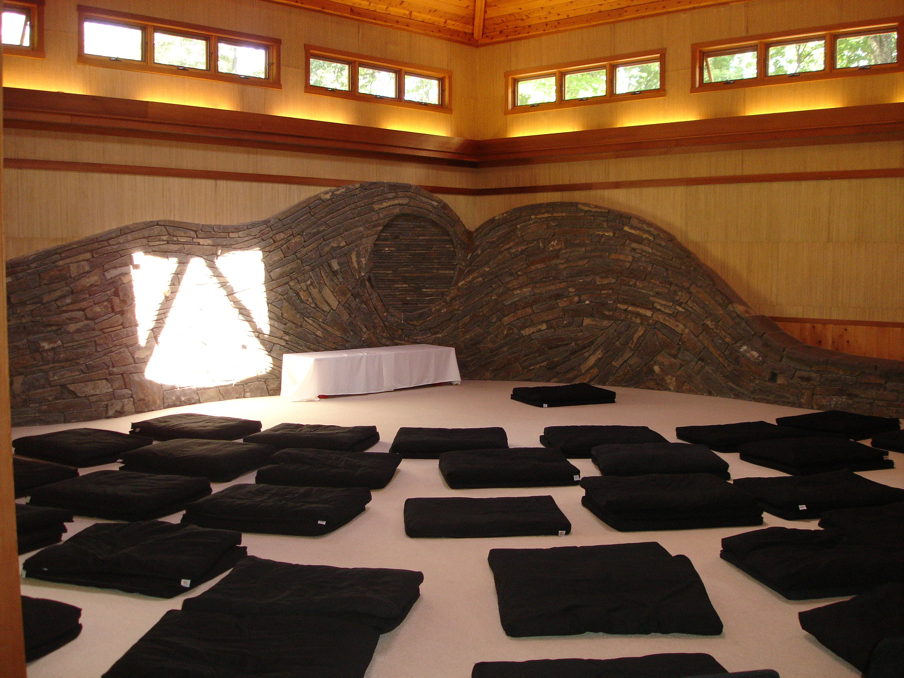 Sanctuary